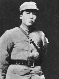 Wang Juren